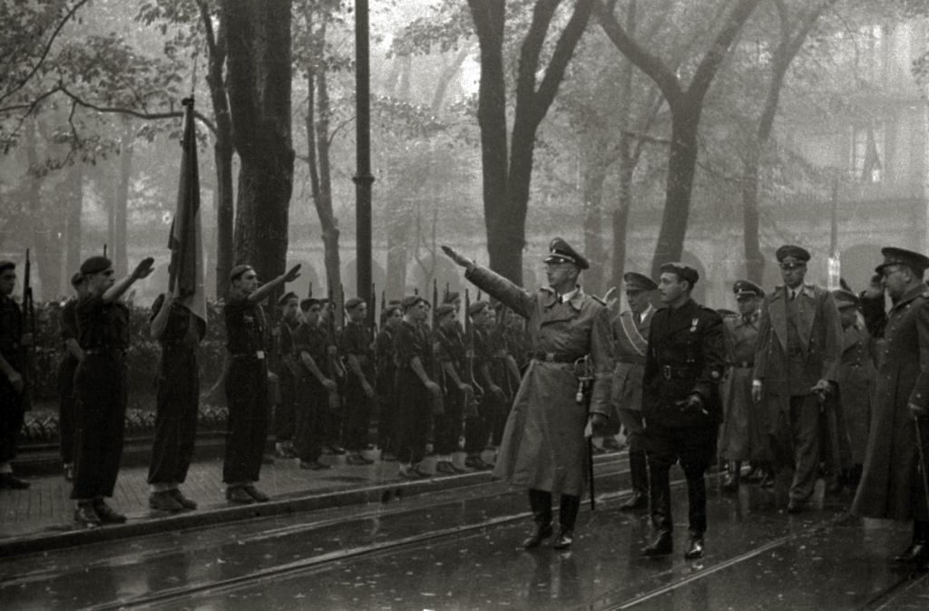 Heinrich Himmler in Gipuzkoa plaza, San Sebastián (Donostia), Spain